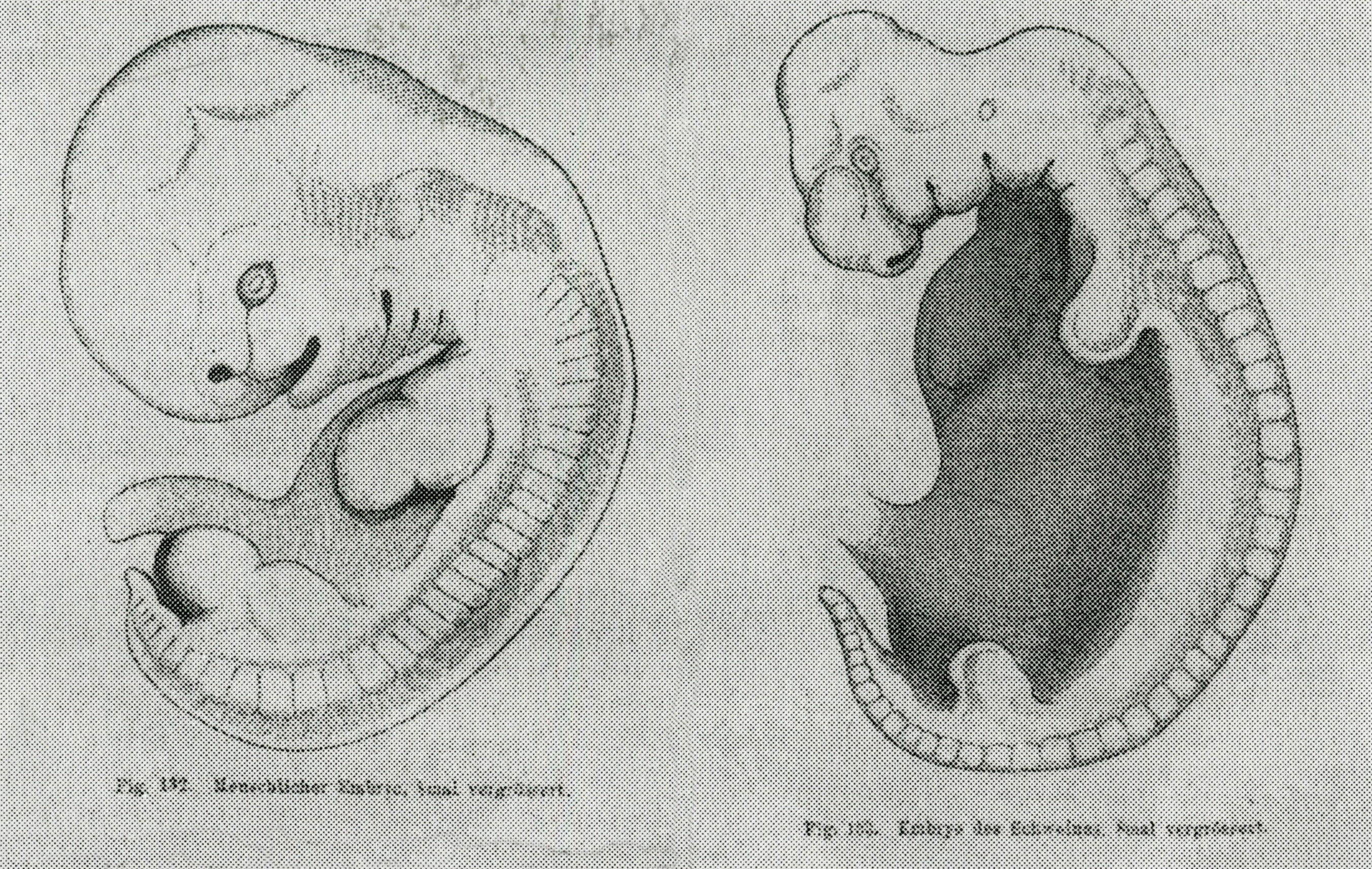 Comparison of a human and a pig embryo. The embryos look remarkable different and contradict Ernst Haeckel's biogenetic law.